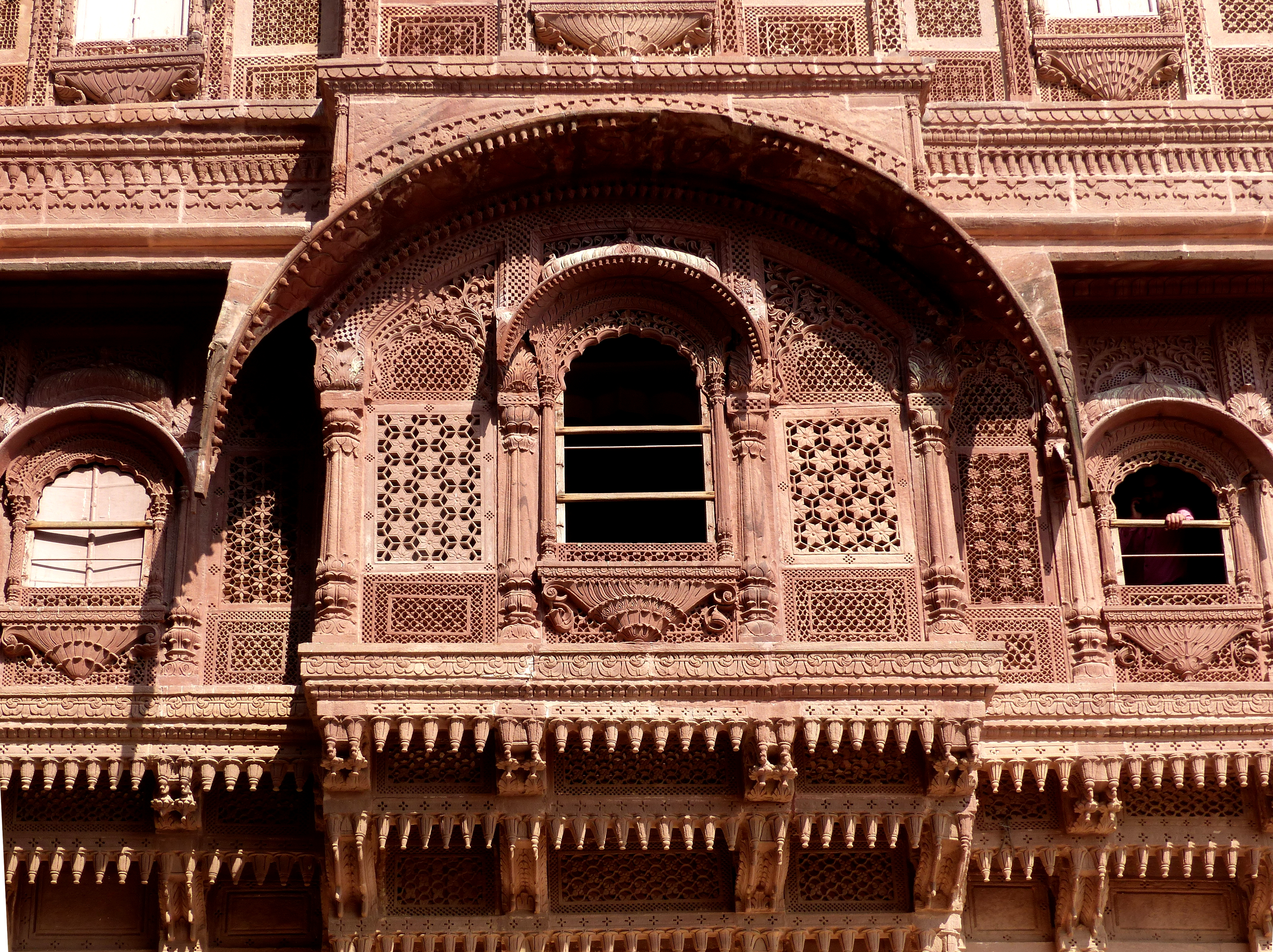 Jodhpur ( Rajastan / India ). Fort Meranghar - Jharokhas at the palace facade.